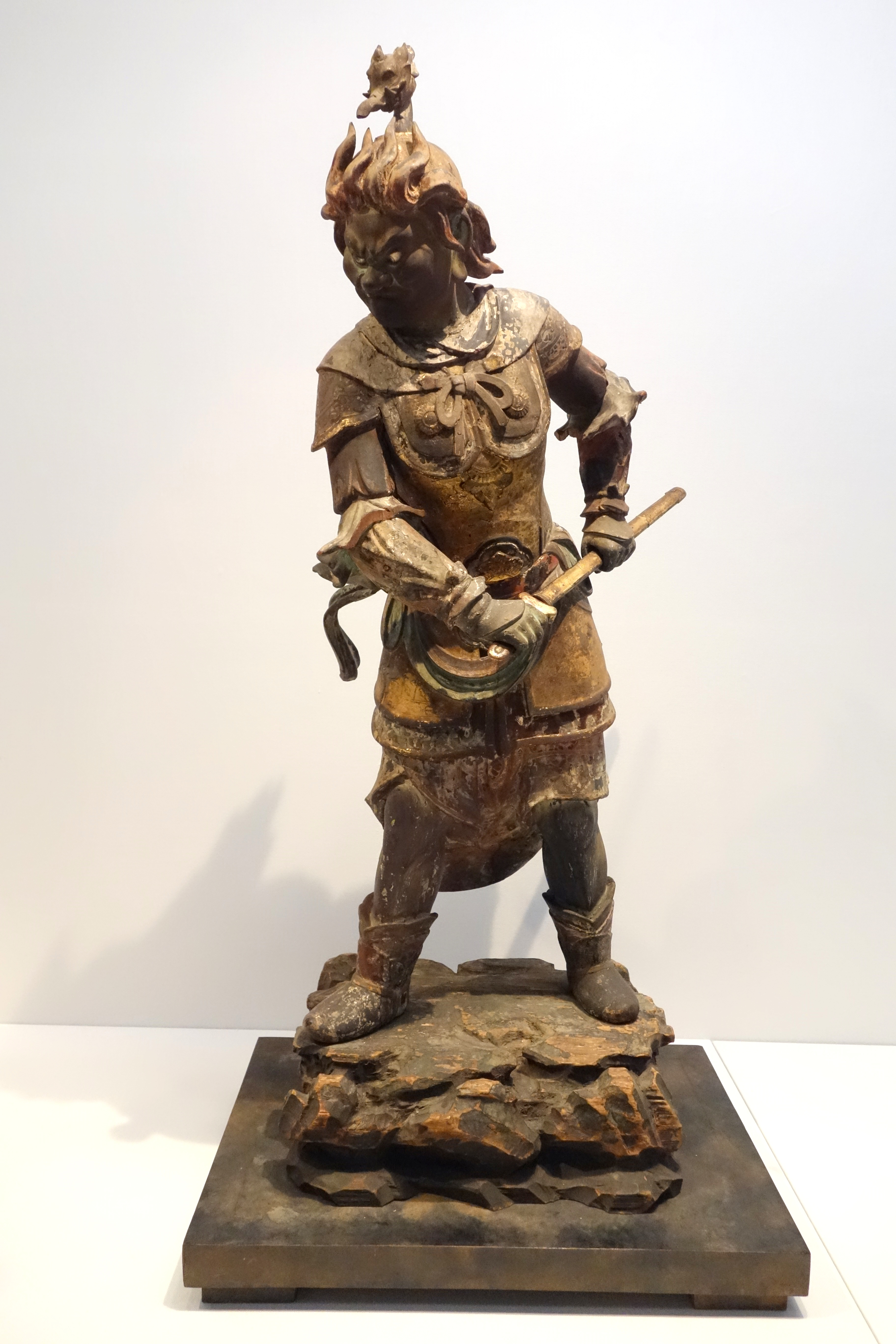 Exhibit in the Tokyo National Museum, Tokyo, Japan. This artwork is old enough so that it is in the public domain.